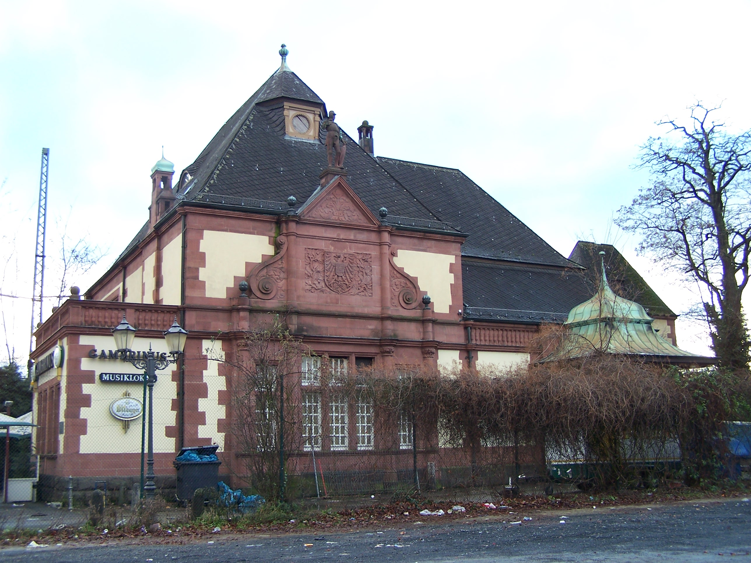 Former separate part for princes of Bad Homburg station in Bad Homburg